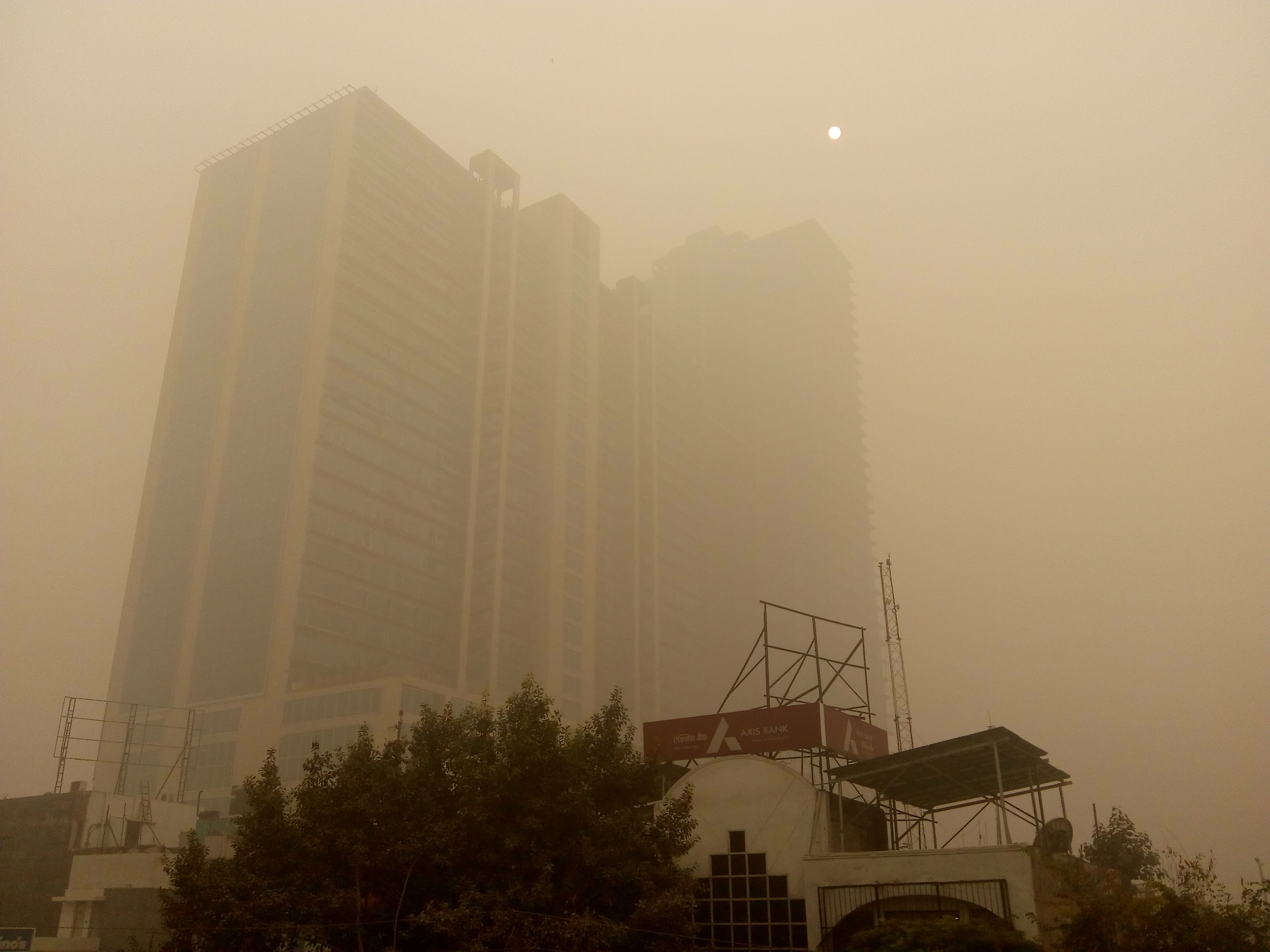 Poulluted killer fog in Delhi in November 2017